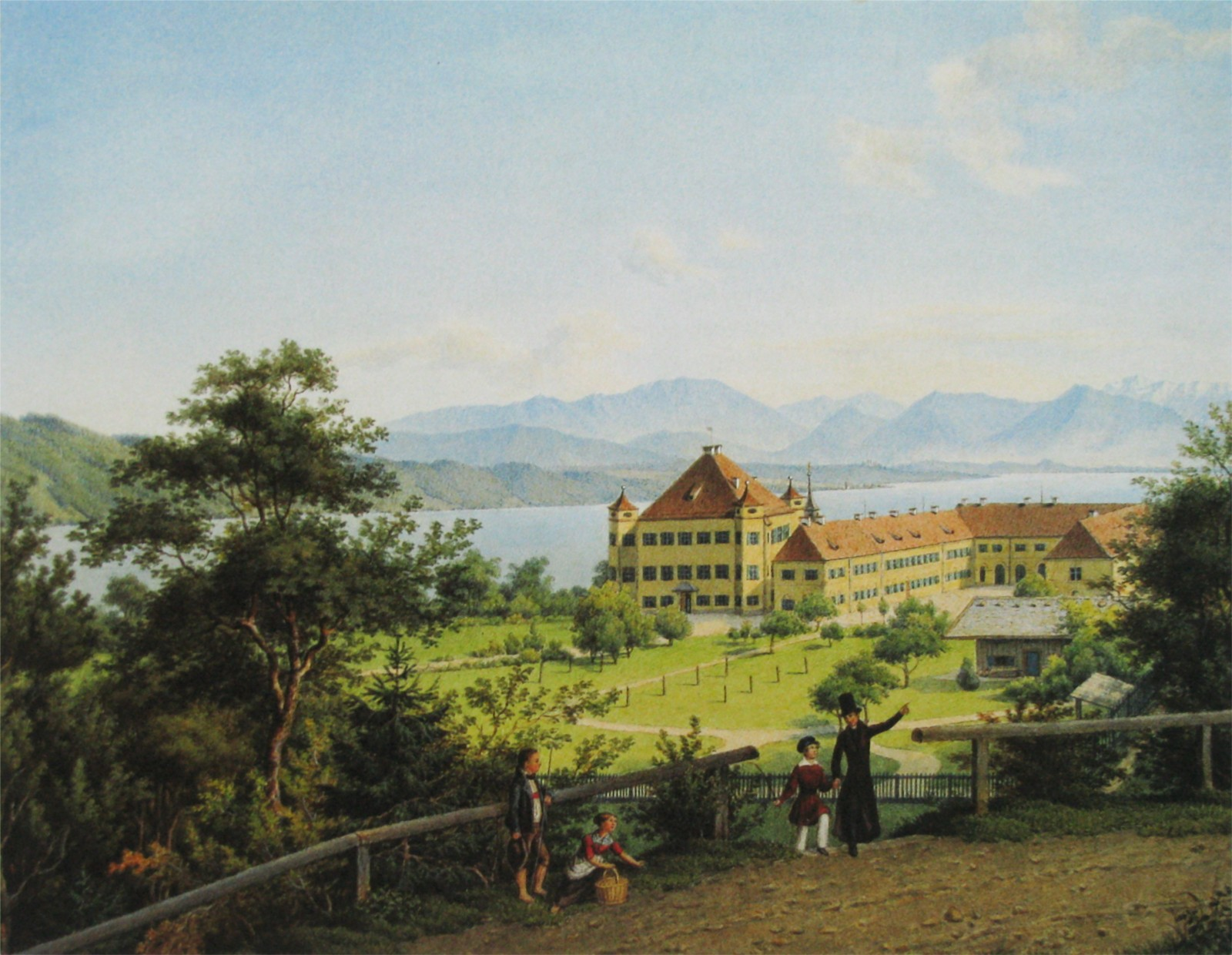 Possenhofen Castle